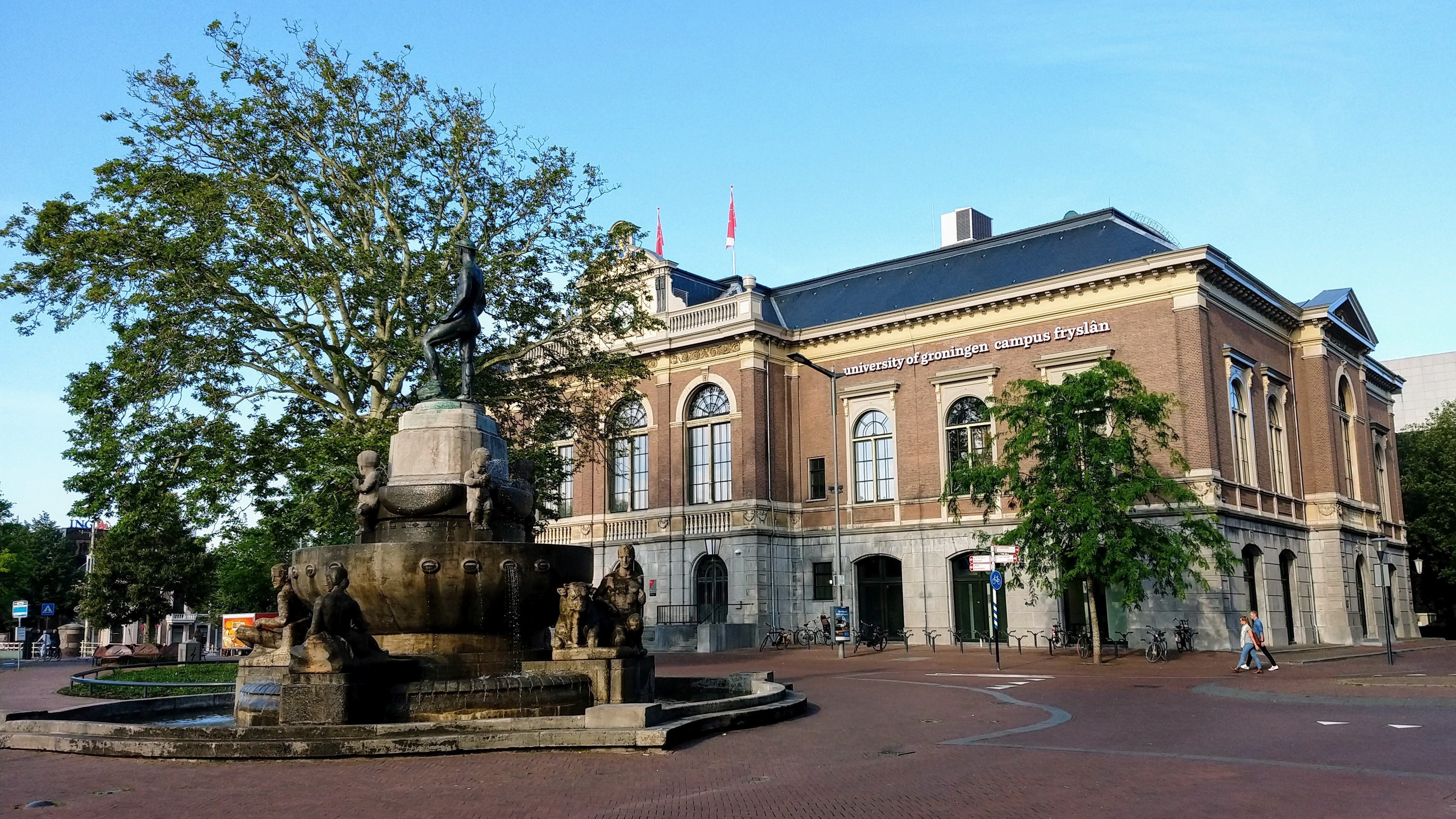 De Beurs, Campus Fryslan, Rijksuniversiteit Groningen (2019). Formerly in use as the public library.